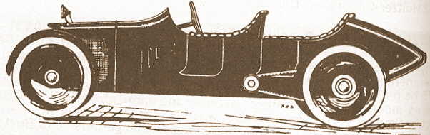 1914 Hoosier Scout